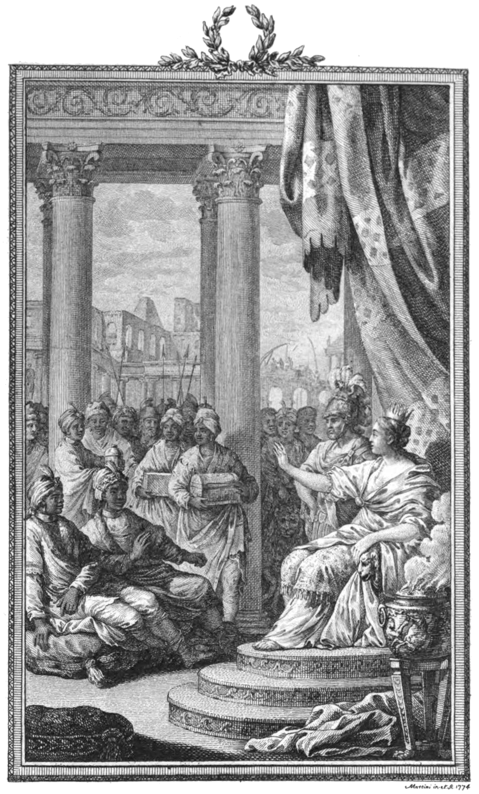 Metastasio - Didone abbandonata, Atto I, Scena V. „Lascia pria ch’io risponda e poi favella“